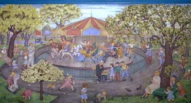 “Merry Go Round”, an oil on canvas mural by Ethel Spears done in 1939